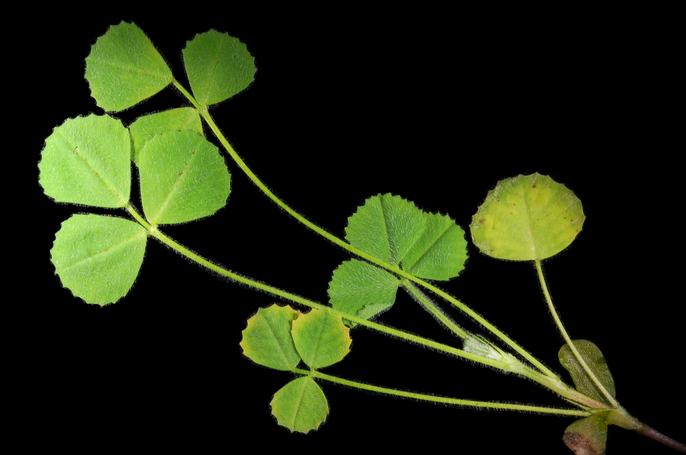 The shoot of a 4-week-old Medicago truncatula A20.